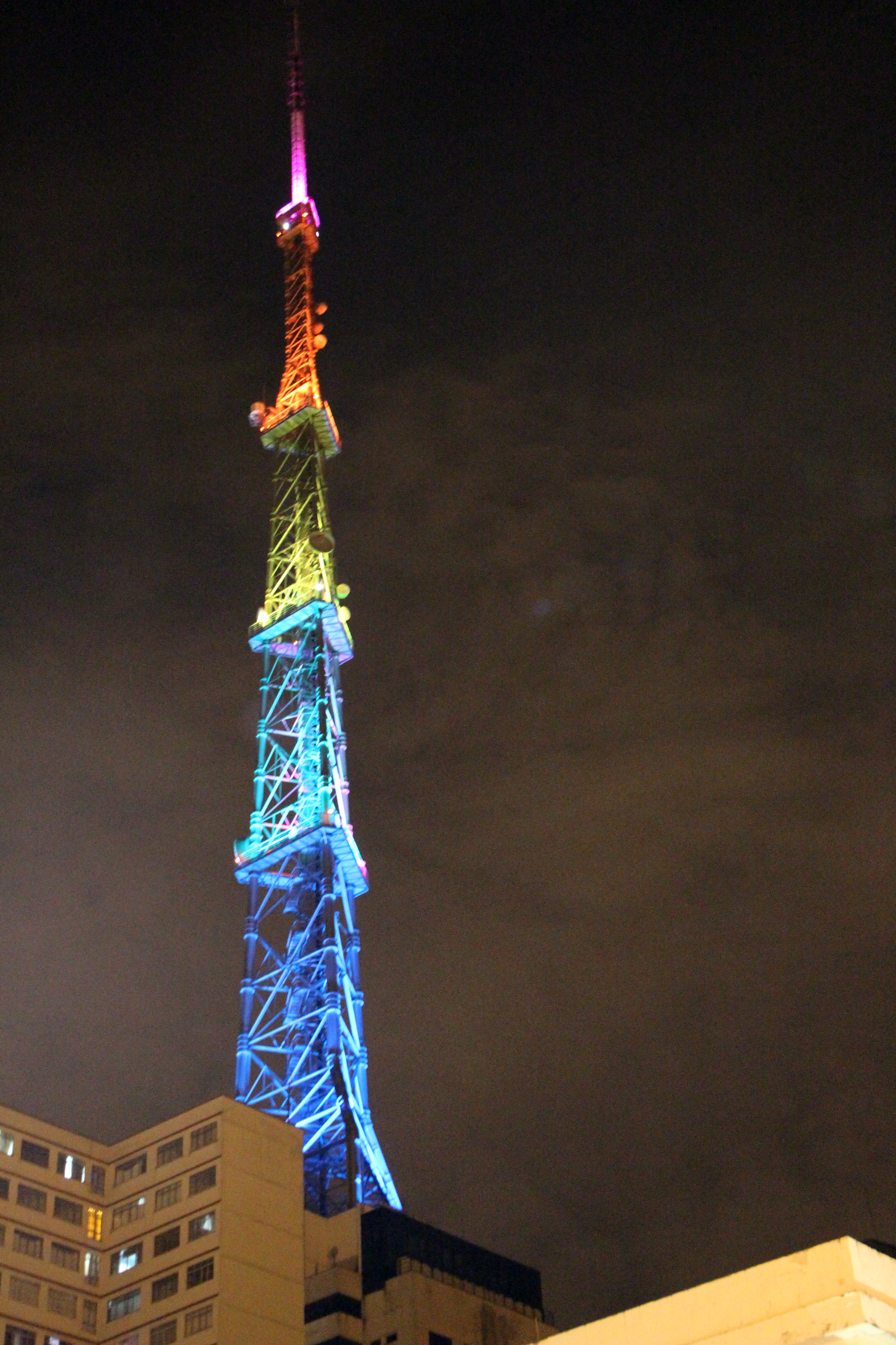 Transmitter of TV Globo - São Paulo, channel 5, located in the center of São Paulo, Brazil.